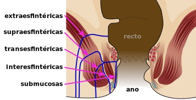 This is a modified version of the original by Armin Kübelbeck [CC BY 3.0 ( via Wikimedia Commons, Specifically, it was made fistula-specific by removing abscess labels. Spanish fistula labels were substituted for the English ones.